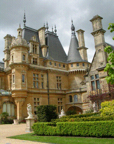 Waddesdon Manor towers westside